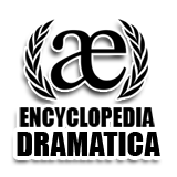 Encyclopedia Dramatica logo